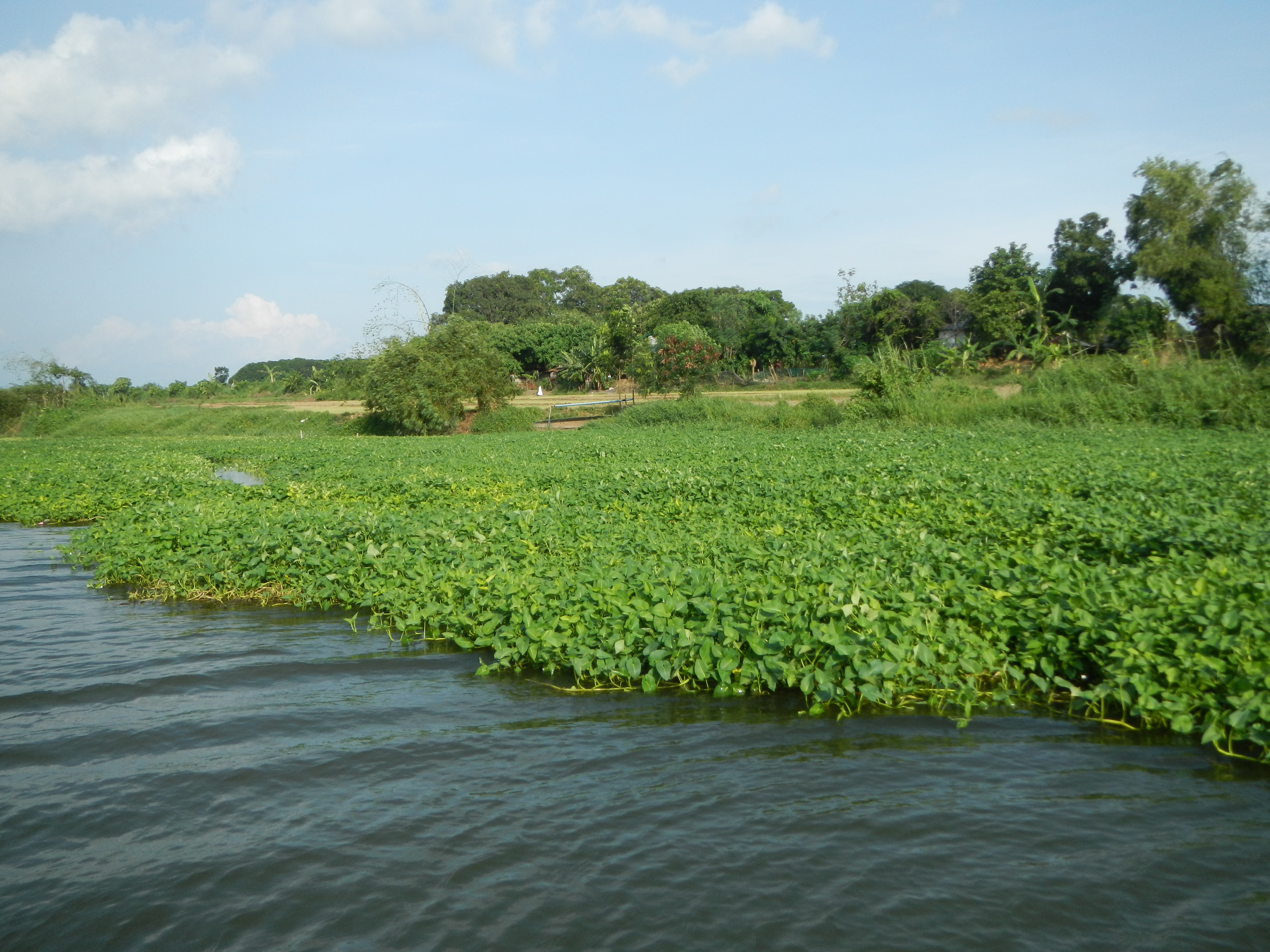 Angat River along Pulilan-Plaridel, Bulacan - Kangkong Ipomoea aquatica Forsk. Convolvulus reptans Linn. fields or plantations in Angat River (in Barangay Lumang Bayan, Plaridel, Bulacan on one side and Barangay Poblacion, Pulilan, Bulacan on the other side; scenic Pulilan River, part of the Angat River also called Bulacan River cutting its way through the eastern edge of Baliuag, and the southern fringes of Pulilan down to the tributary of Manila Bay, the bank of the Pulilan River).